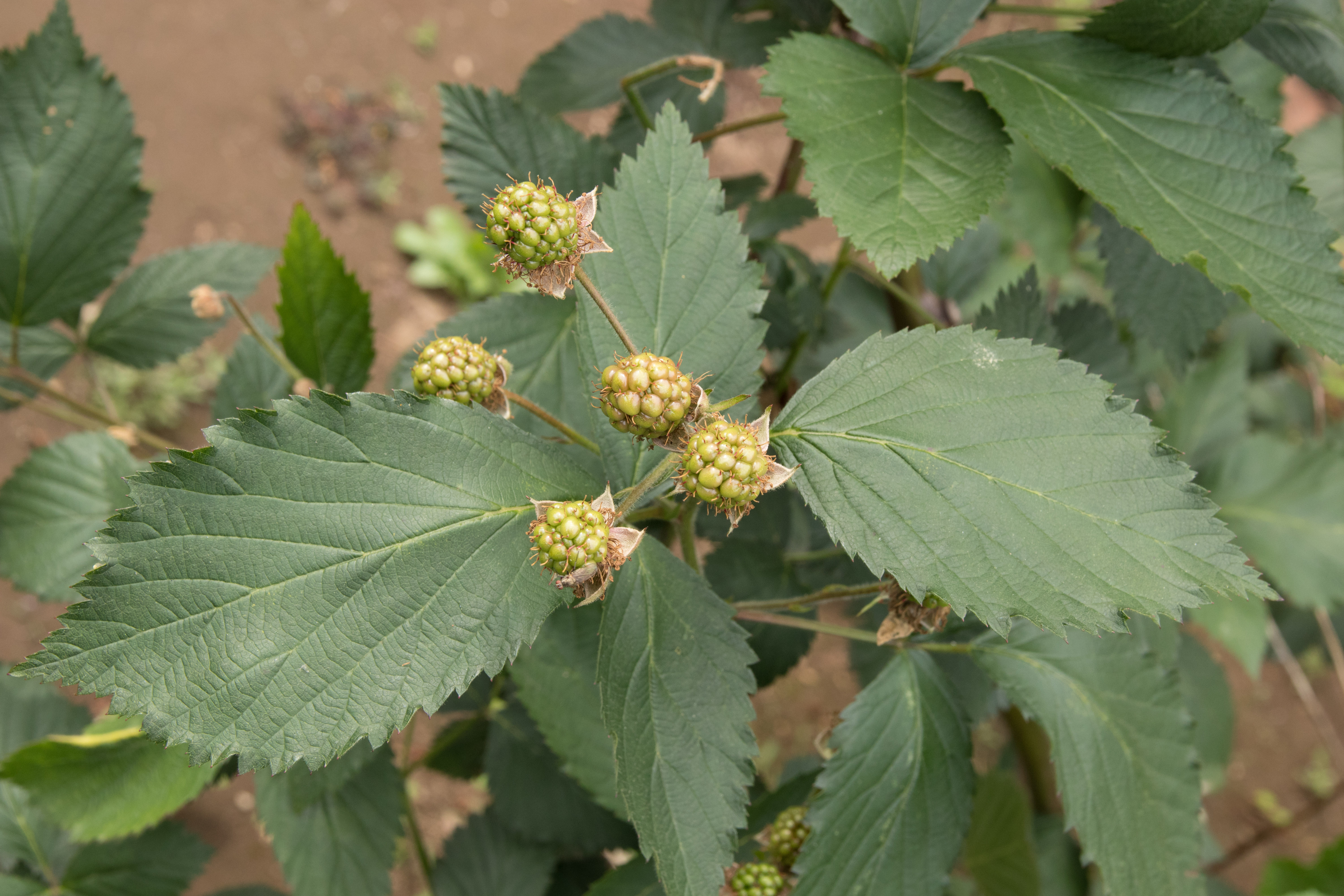 Armenian blackberry(Binomial name:Rubus armeniacus)